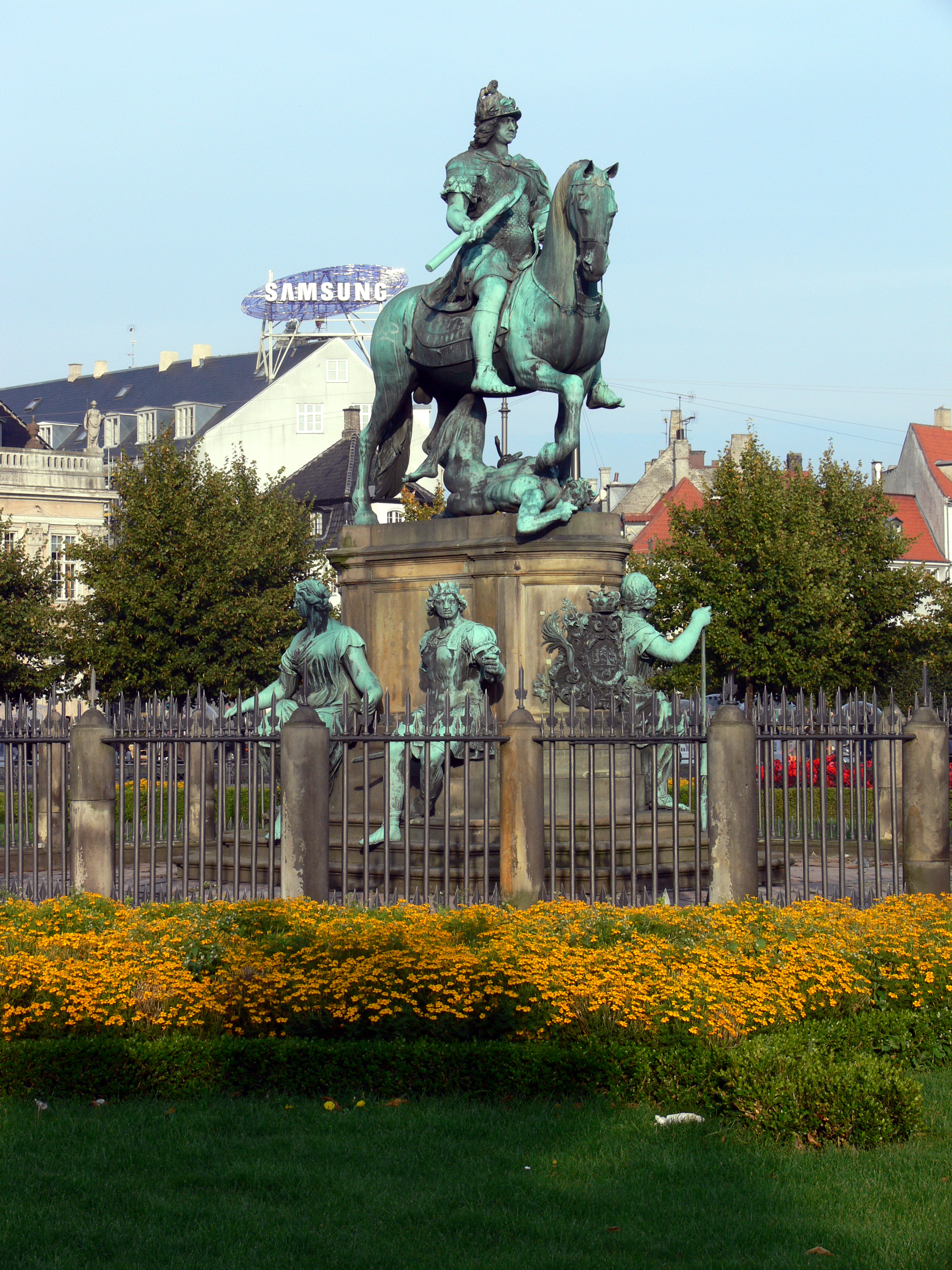 Christian V., King of Denmark and Norway, 1670-1699